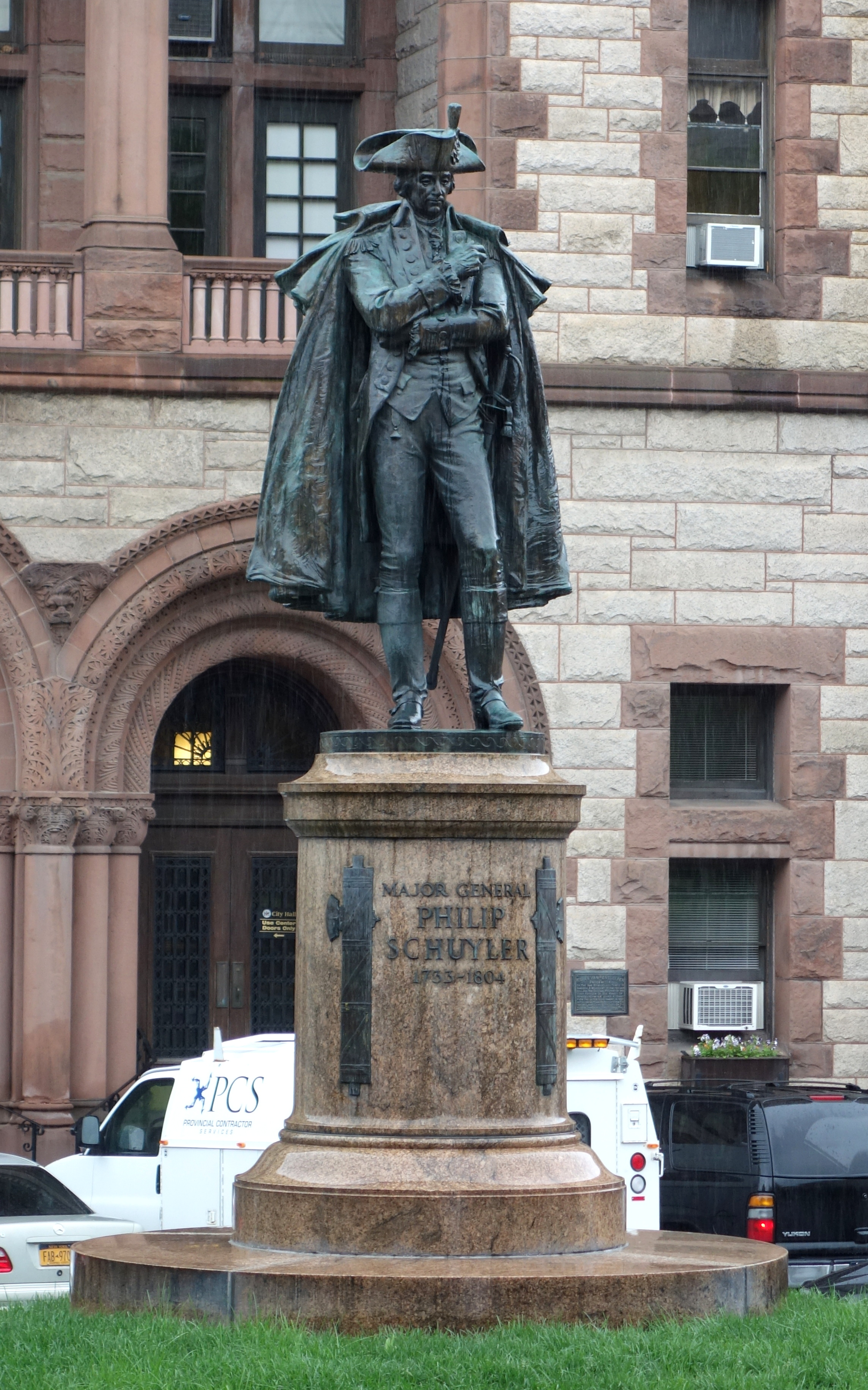 Major General Philip Schuyler by J. Massey Rhind - Albany, New York, USA. Sculptor: J. Massey Rhind (1860-1936). Dedicated June 14, 1925. Smithsonian SIRIS Control Number: IAS 76007630, with description "The sculpture was a gift of George C. Hawley in memory of his wife Theodora M. Hawley. Inside the base there is a chest containing newspapers, coins, mementoes, and a picture of Mrs. Hawley. For additional information see the Knickerbocker Press (Albany, NY), June 14, 1925. The inscription on a plaque located in the ground in front of the sculpture reads: PRESENTED IN LOVING MEMORY OF/HIS WIFE THEODORA M. HAWLEY TO THE/CITY OF ALBANY, BY GEORGE C. HAWLEY/MCMXXV/CITIZENS' COMMITTEE/HON. WM. S. HACKETT, MAYOR FRANK B. GRAVES/HON. WM. E. WOOLLARD DR. ARTHUR W. ELTING.". This artwork is in the public domain because the artist died more than 70 years ago.